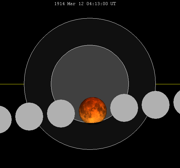 March 1914 lunar eclipse chart of moon's total lunar eclipse path through the earth's shadow. thumb